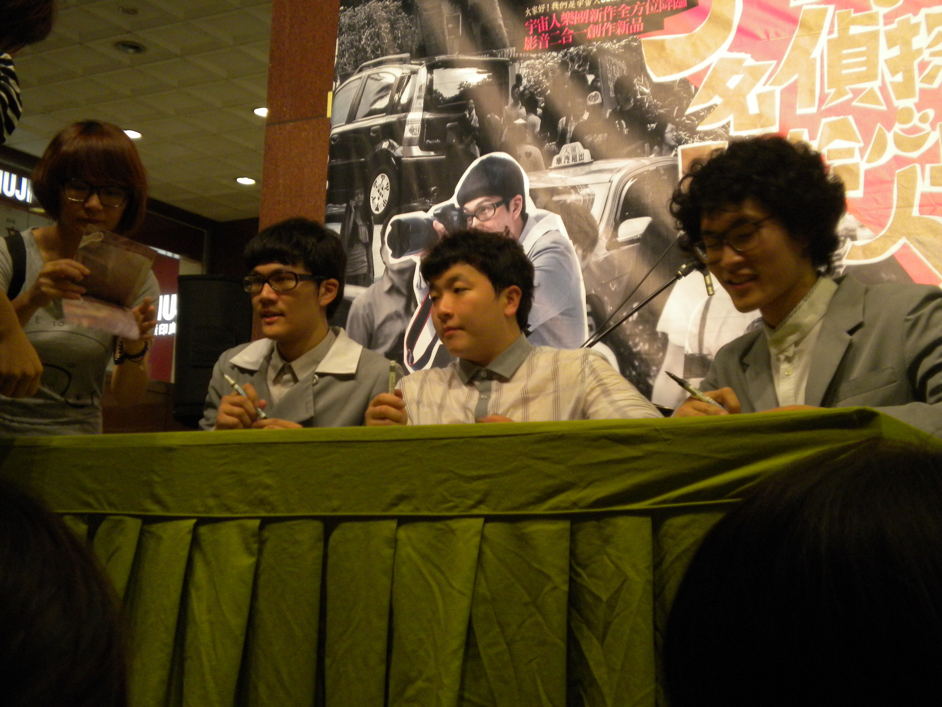 CosmosPeople's photo